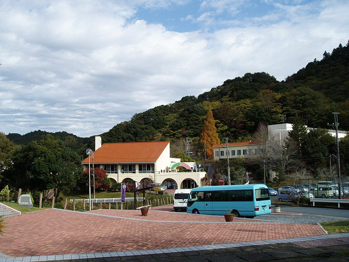 The cafeteria (left) and the Dormitory "Myrte" (right) at Otaki Campus, Saniku Gakuin College, located in Otaki, Chiba, Japan.